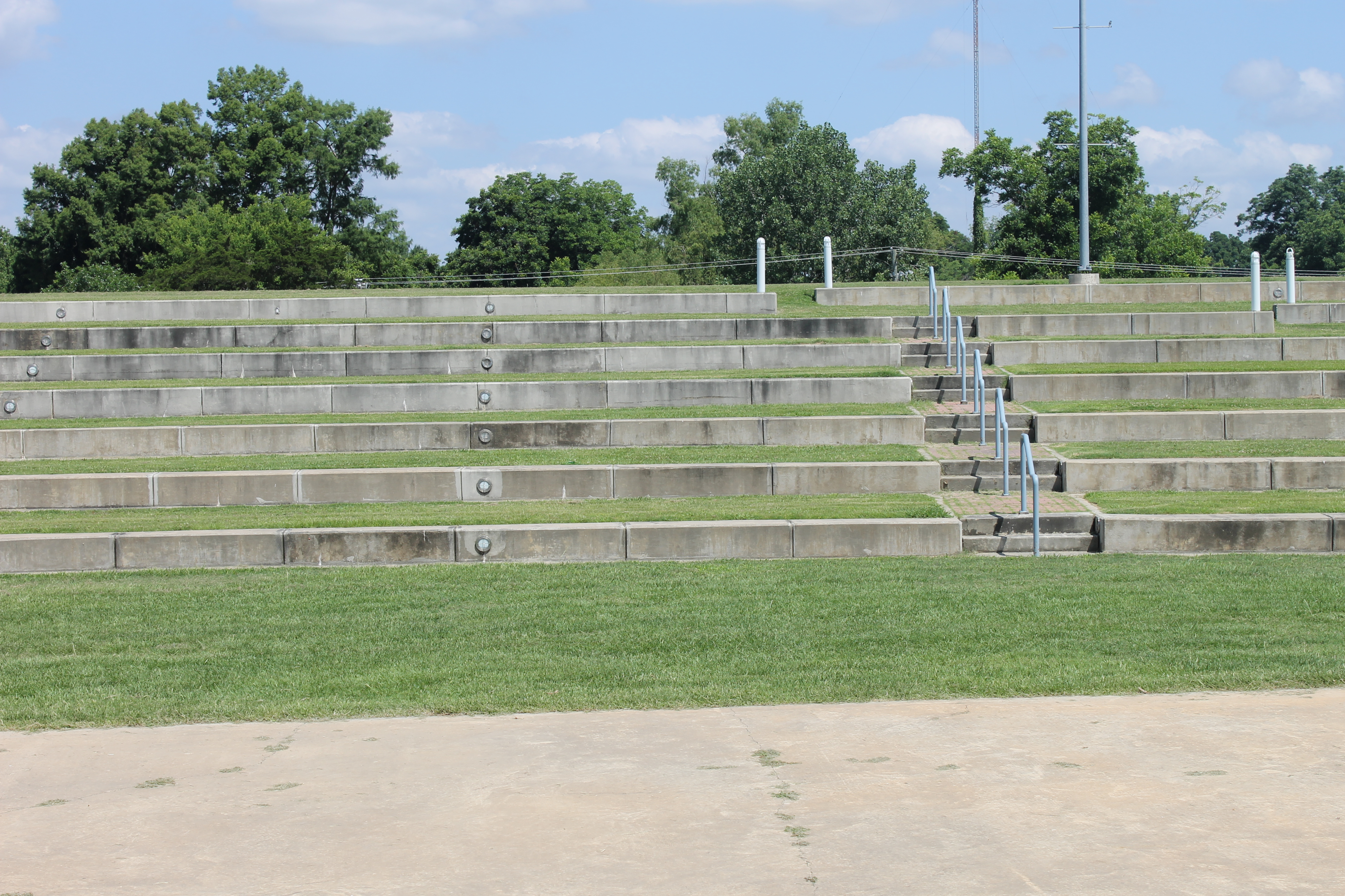 Mississippi River amphitheater in Vidalia, LA